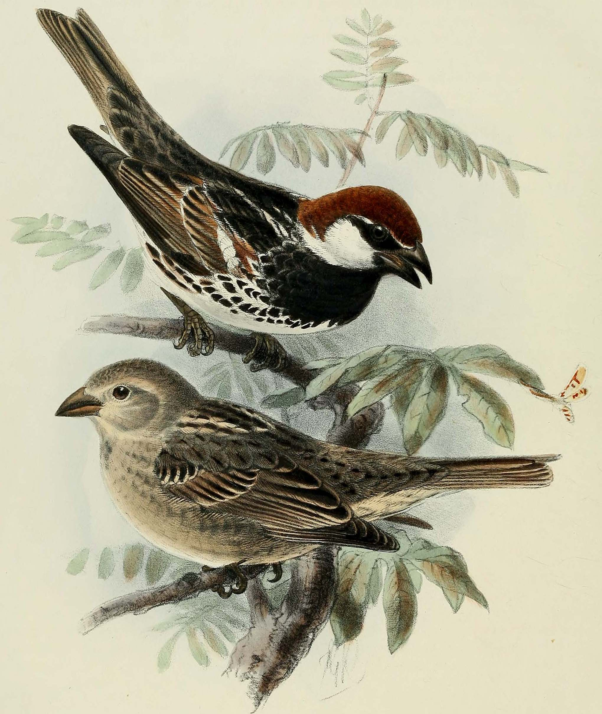 Passer hispaniolensis Dresser